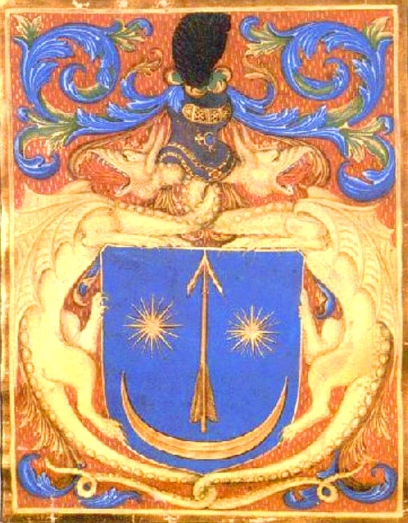 Pol CoA Sas and hungarian family Dragffy CoA